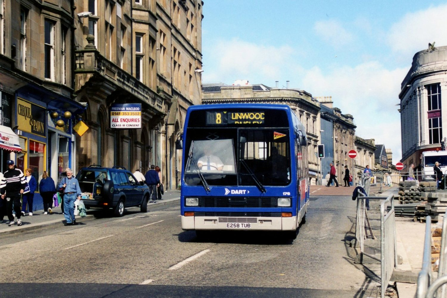 Dart Buses 178 (E258 TUB), a second-hand Leyland Lynx single-decker, in service in Paisley during September 2001, a month before Dart ceased to operate.